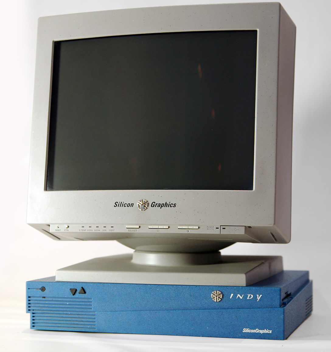 SGI Indy with original 17" SGI CRT